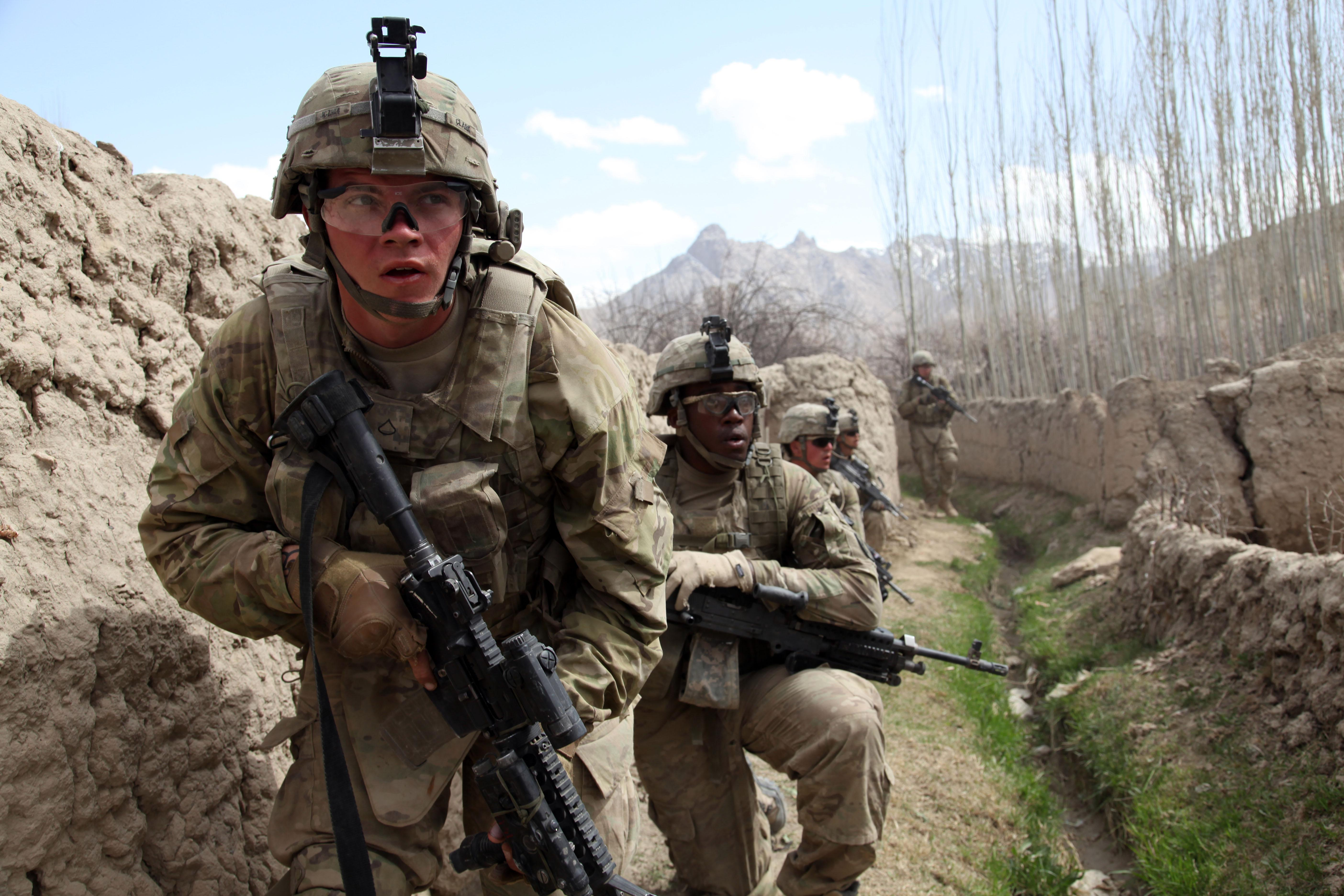 U.S. Army Pfc. Joshua Clark and Spc. Saikan Corbitt with 1st Platoon, Bravo Company, 2nd Battalion, 30th Infantry Regiment, 4th Brigade Combat Team, 10th Mountain Division, move behind mud walls in order to take over an enemy sniper position during Operation Charkh Restoration, Charkh District, Logar province, Afghanistan, April 5.